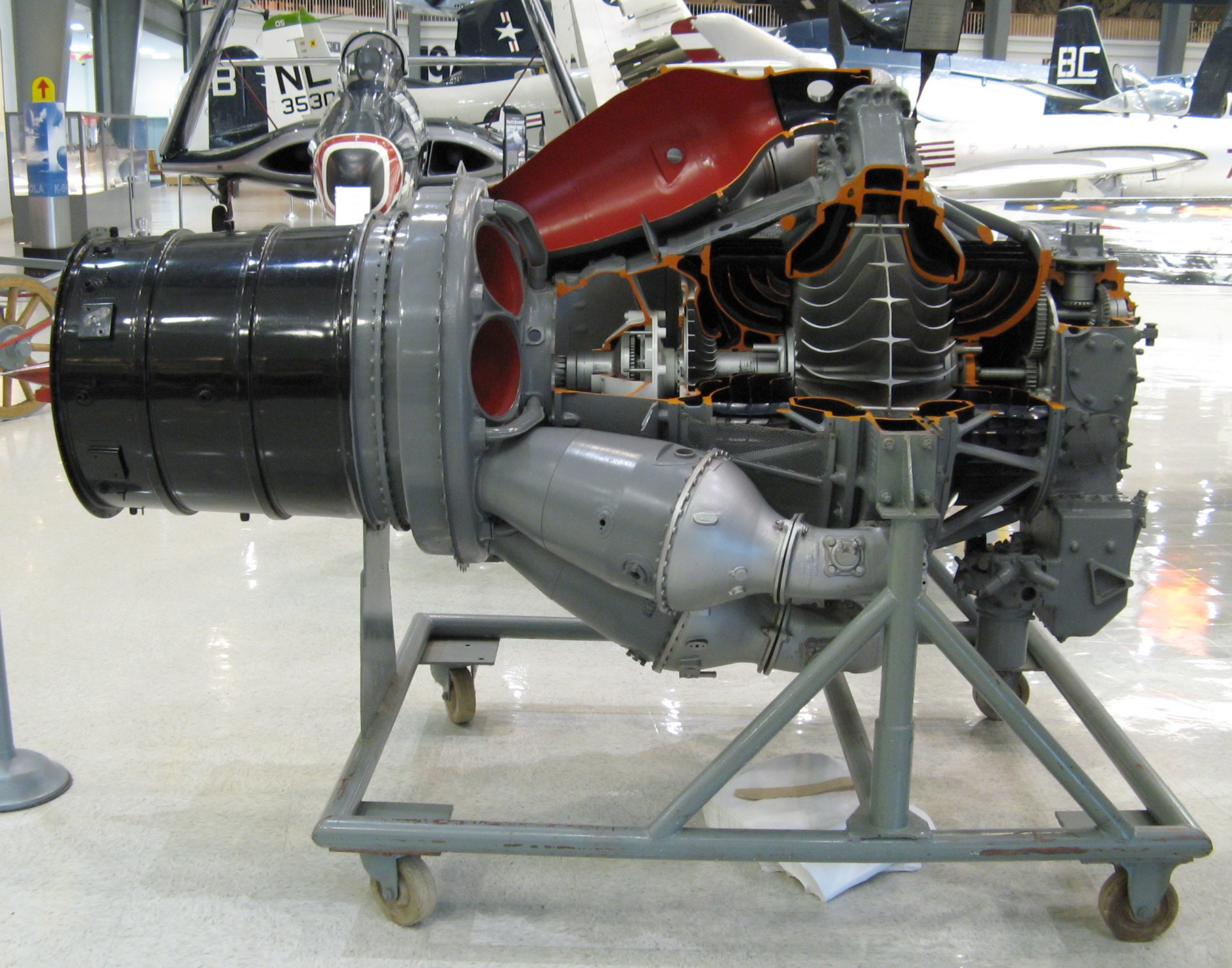 Pratt & Whitney J42 turbojet, Naval Aviation Museum, Pensacola, Florida